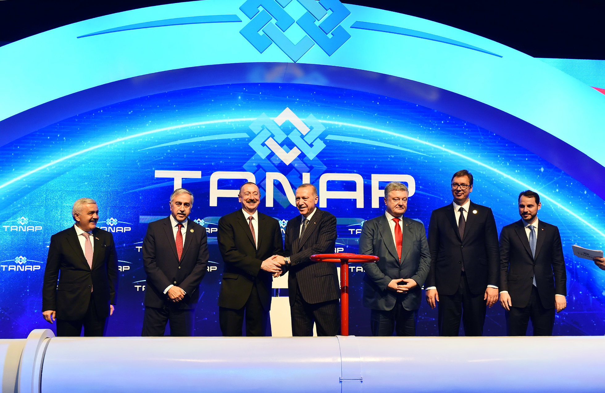 TANAP inauguration at the Turkish city of Eskişehir. (Rovnag Abdullayev - president SoCAR, → Mustafa Akıncı - President of Northern Cyprus, → Ilham Aliyev - President of Azerbaijan, → Recep Tayyip Erdoğan - President of Turkey, → Petro Poroshenko - President of Ukraine, → Aleksandar Vučić - President of Serbia, → Berat Albayrak - Minister of Energy and Natural Resources of Turkey )